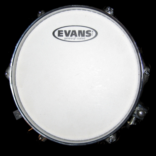 Drumhead, white coated, mounted on snare